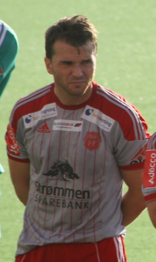 Strømmen IF football player (striker). Akershus, Norway.